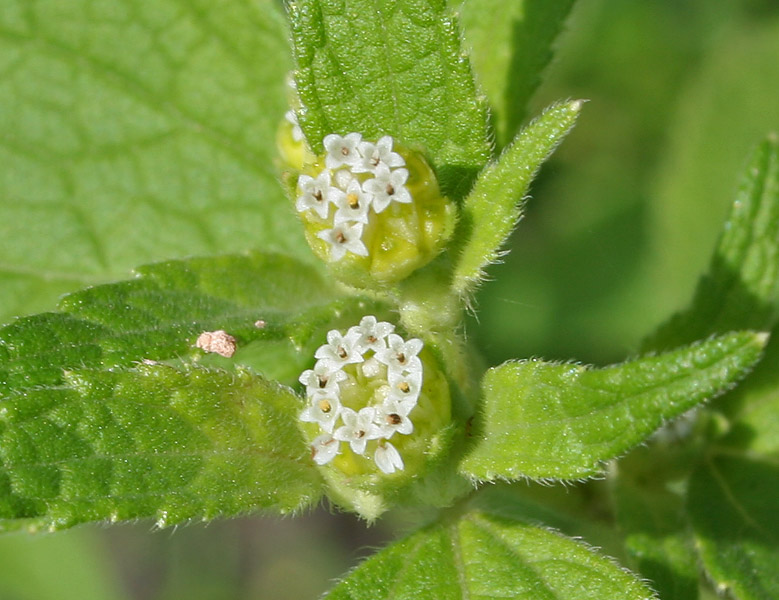 Blainvillea acmella in Hyderabad , India.